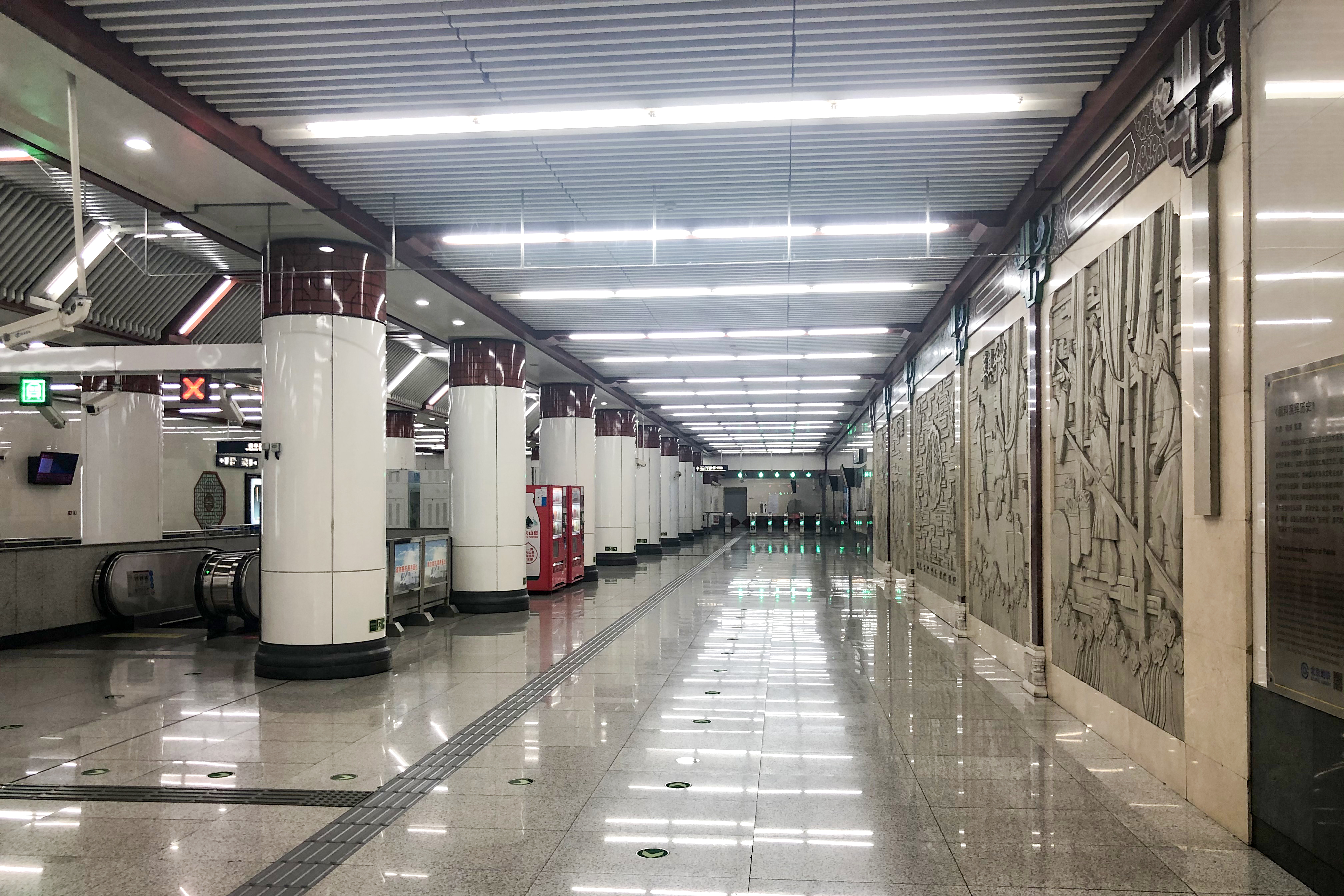 Inspired by those merchants from Pingyao, Shanxi.